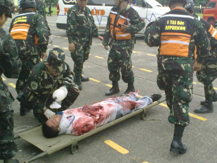 Disaster response simulation with the 1st TAS Brigade, AFPRESCOM during the 32nd AFP Reservists Week Celebration.